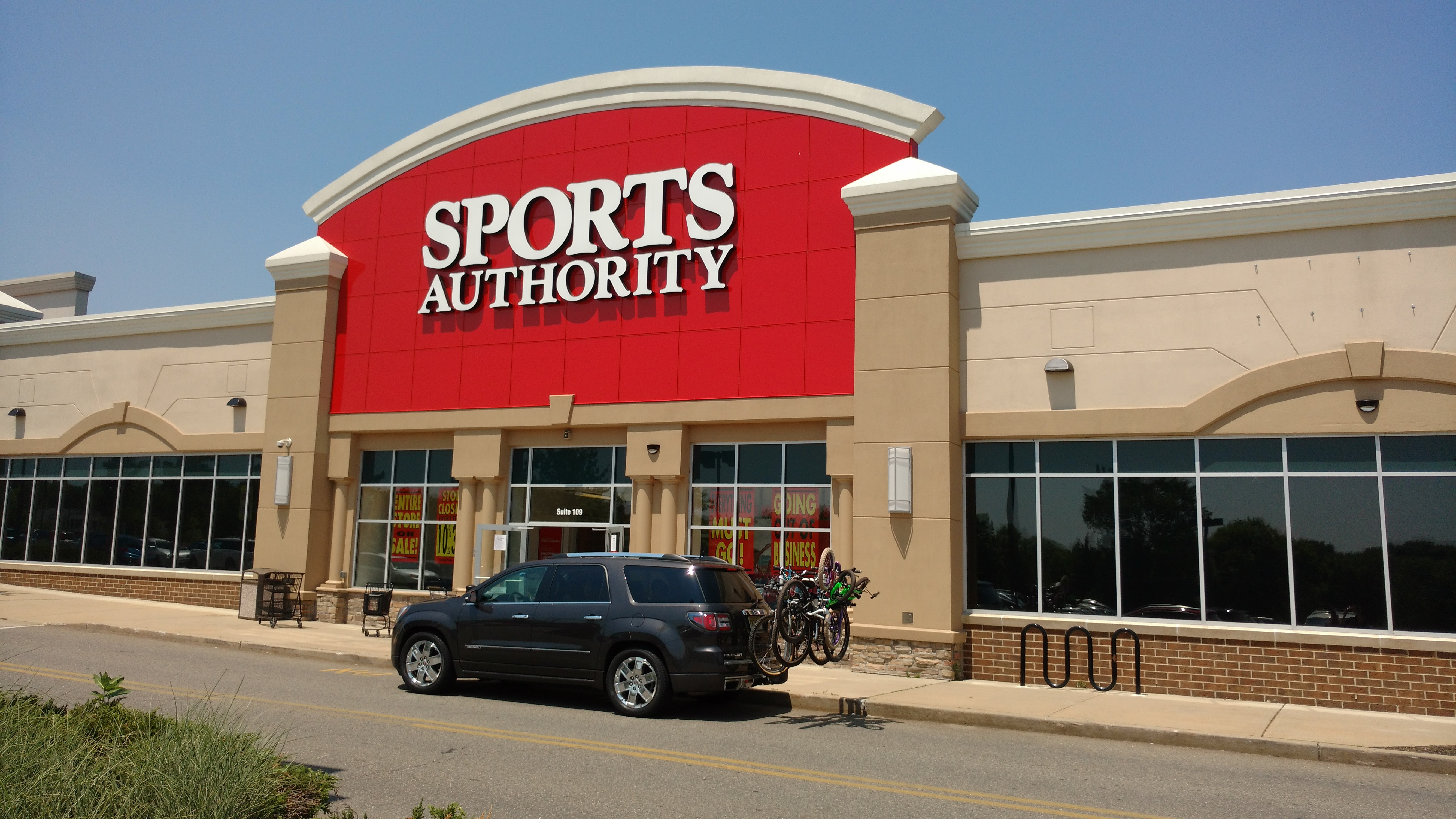 The Sports Authority store in Flemington, New Jersey, on May 28, 2016, during the going-out-of-business sale that affected the entire chain.